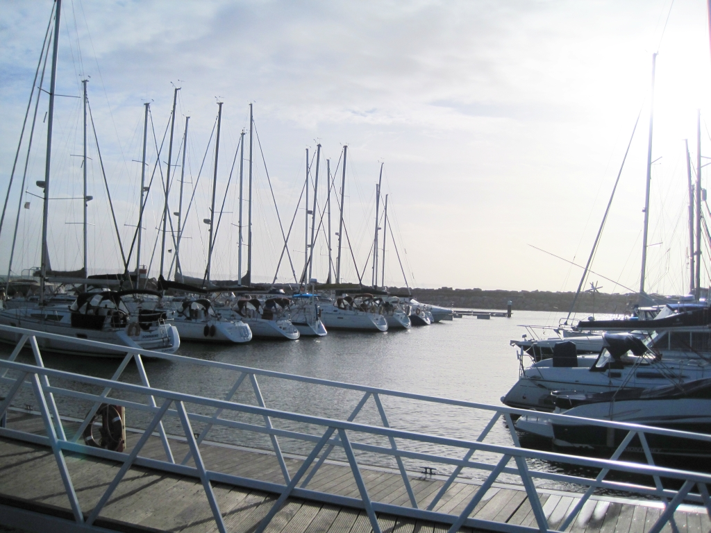 Officially called Oeiras Yachting Harbour (Porto de Recreio de Oeiras).